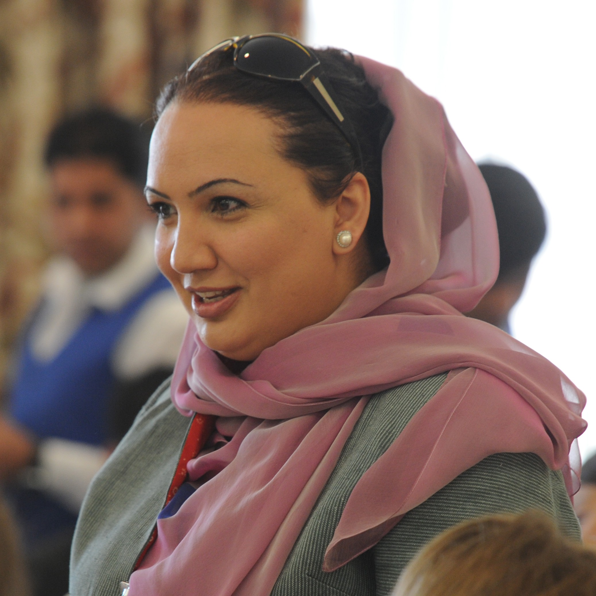 Afghan Parliamentarian Shukria Barakzai speaks to U.S. Congressmen and Afghan Parliamentarians in attendance at a breakfast hosted by U.S. Ambassador Karl W. Eikenberry at the U.S. Embassy in Kabul, Afghanistan.